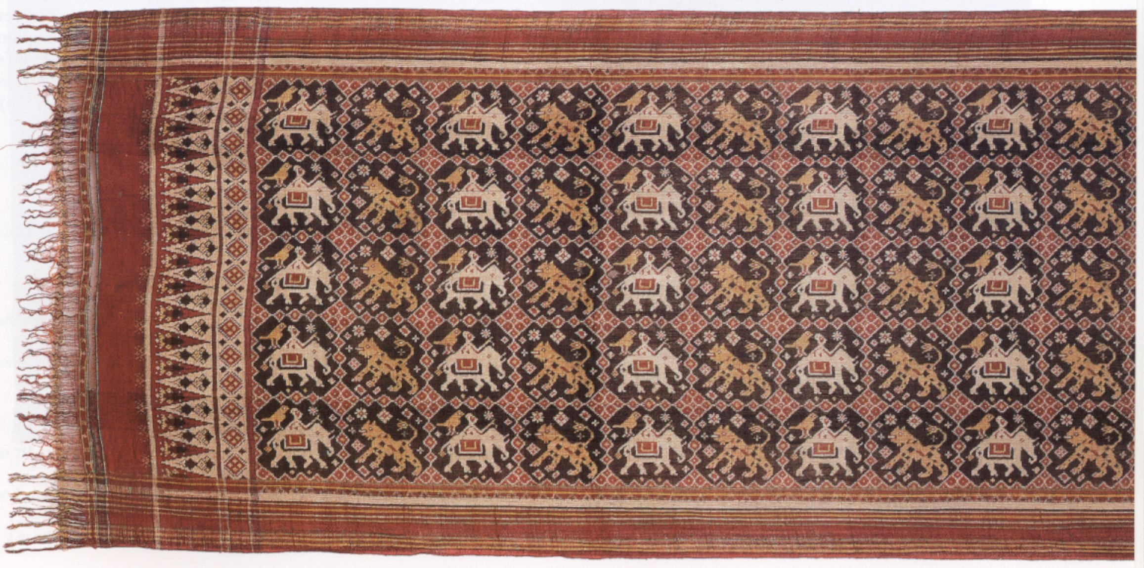 Detail of patola (ritual heirloom cloth) from Gujarat, India, late 18th or early 19th century, silk with warp and weft ikat, Honolulu Academy of Arts